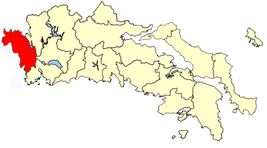 Xiromero province